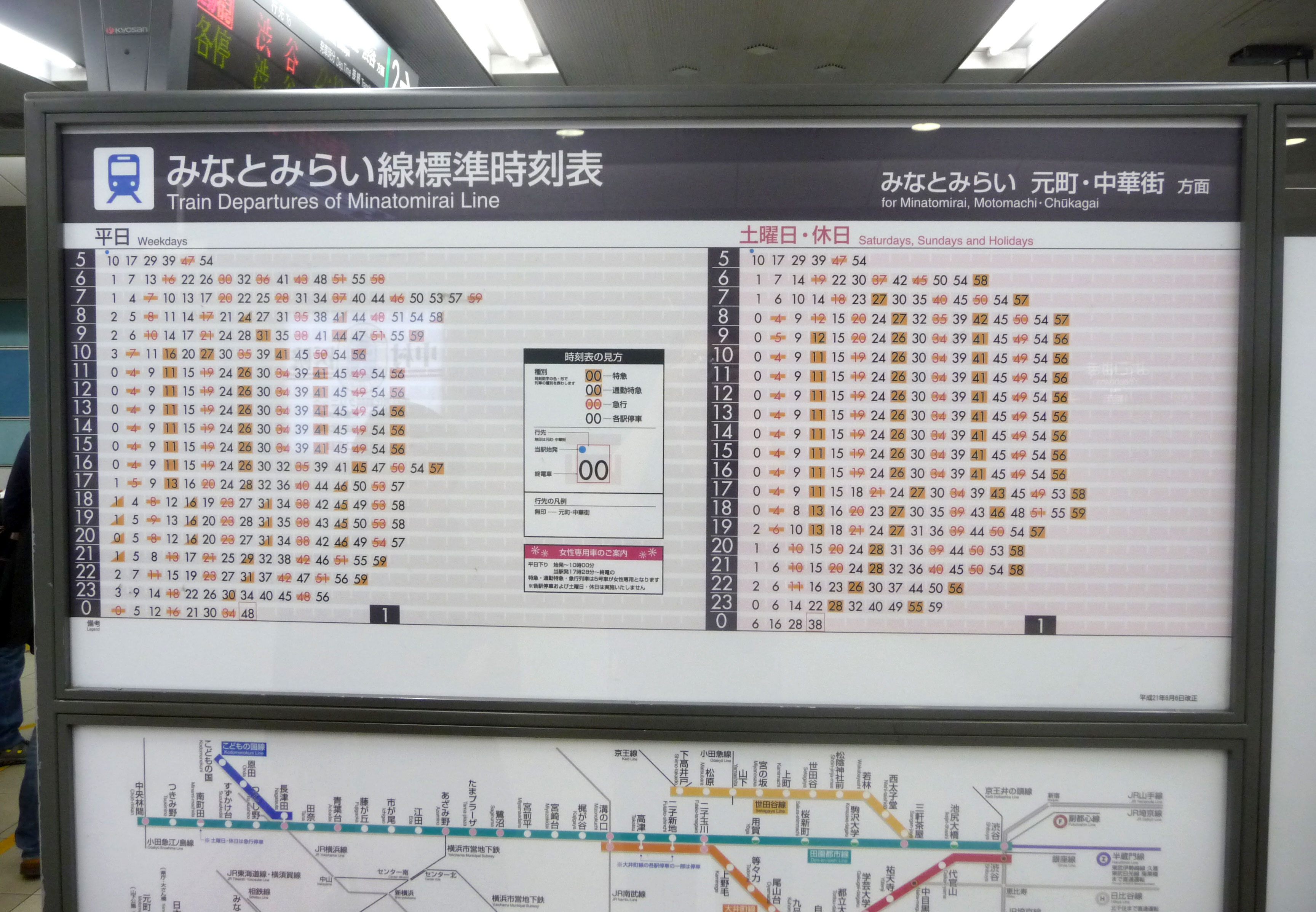 Time table at Yokohama's Minato Mirai train station in Japan illustrating the widespread use of stem-and-leaf graphs in the country.